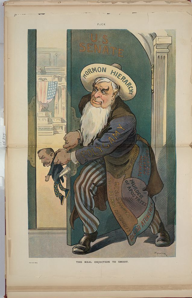 Political cartoon about the Reed Smoot Hearings titled, "The real objection to Smoot." The small man in the hand of the "Mormon Hierarchy" represents Reed Smoot. Published April 27, 1904. J. Ottmann Lithograph Co., Puck Magazine. New York. Copyright 1904 by Keppler & Schwarzmann.